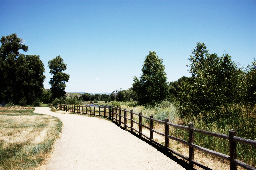 Walkway in Yampa River State Park. Along the Yampa River in northwest Colorado.